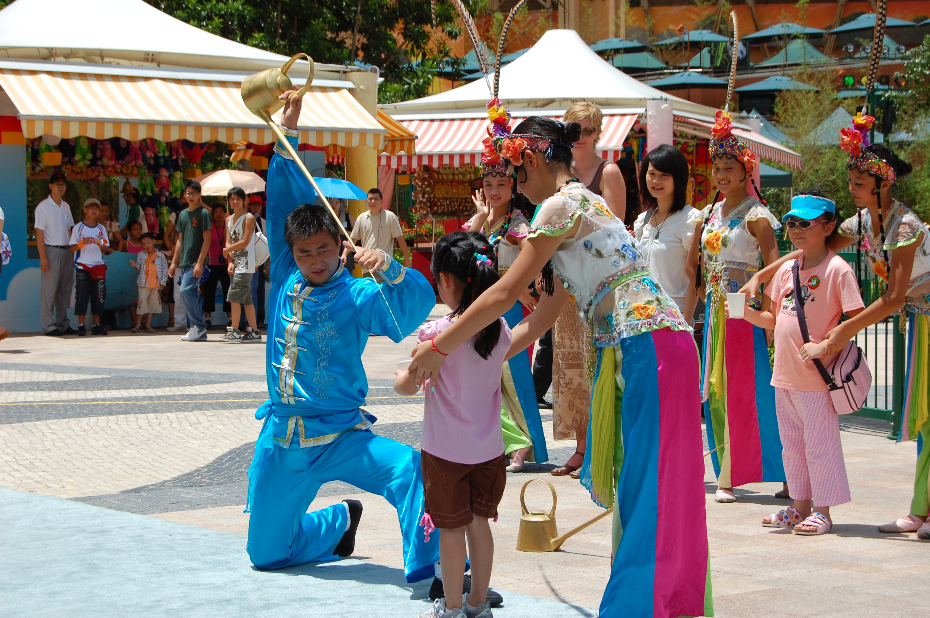 A culture show found in Ocean Park. The man is pouring tea from a special made teapot.